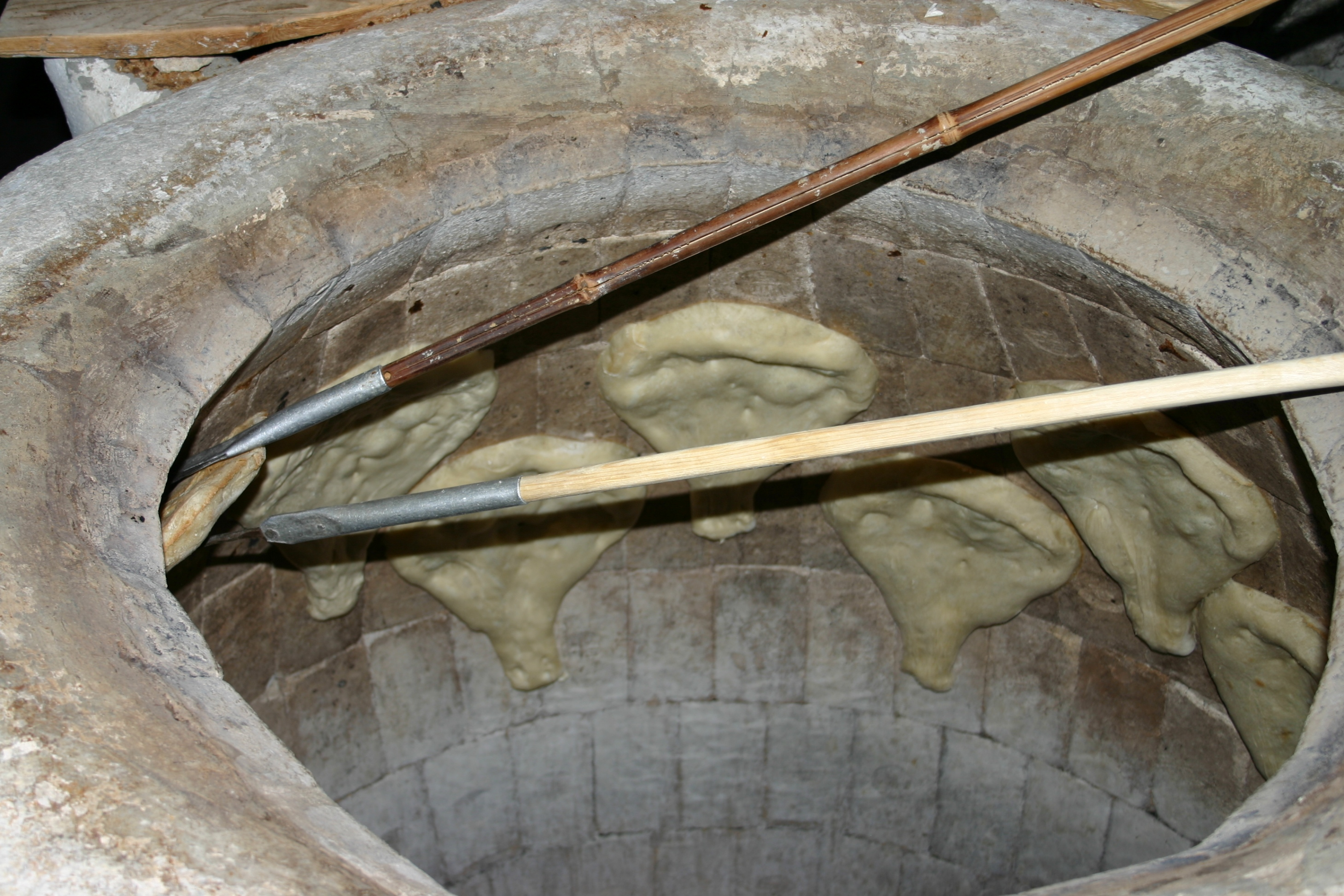 Making bread in Tone. Georgia